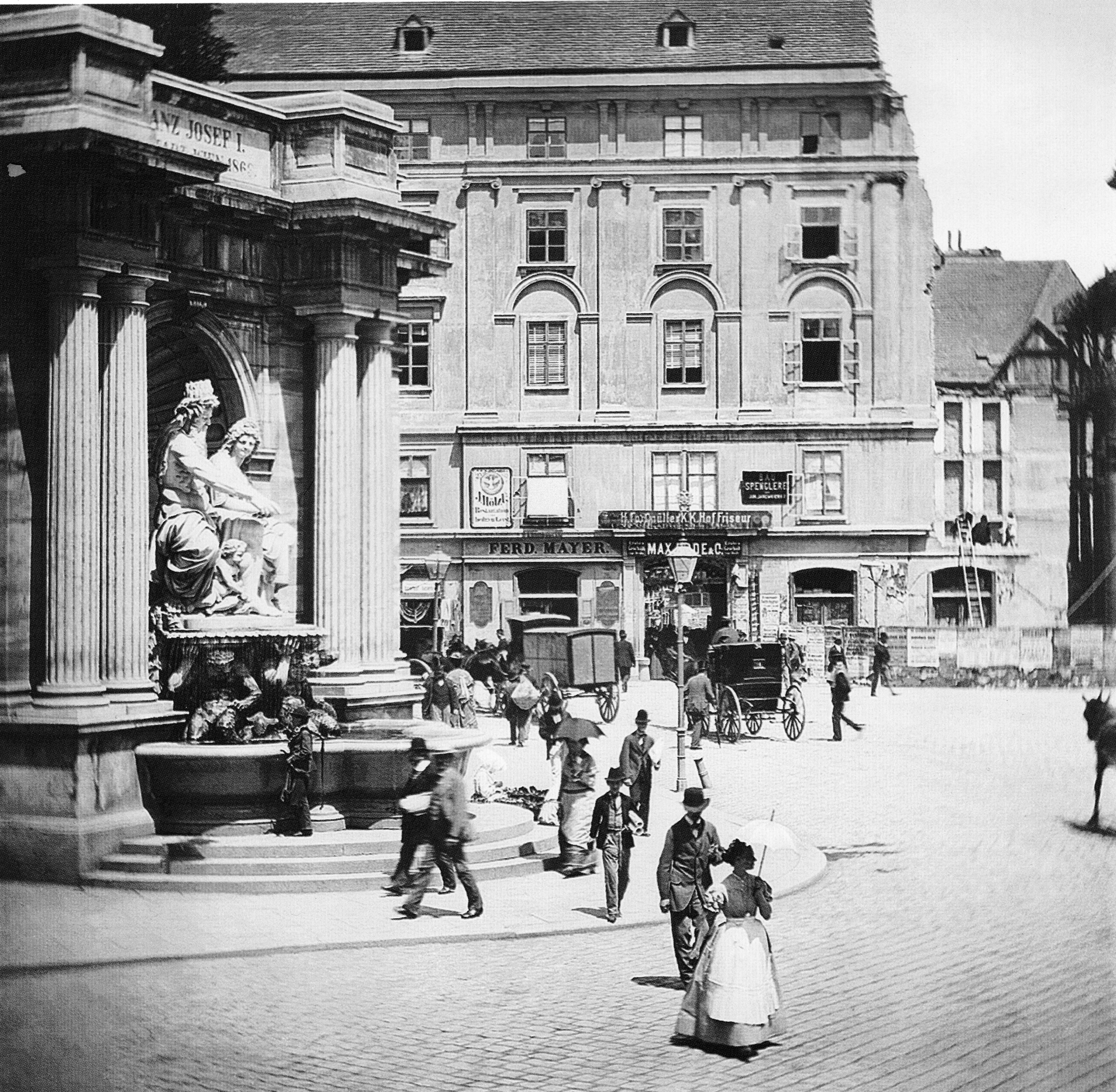 Demolition of Buergerspital, Vienna at Albrechtsplatz